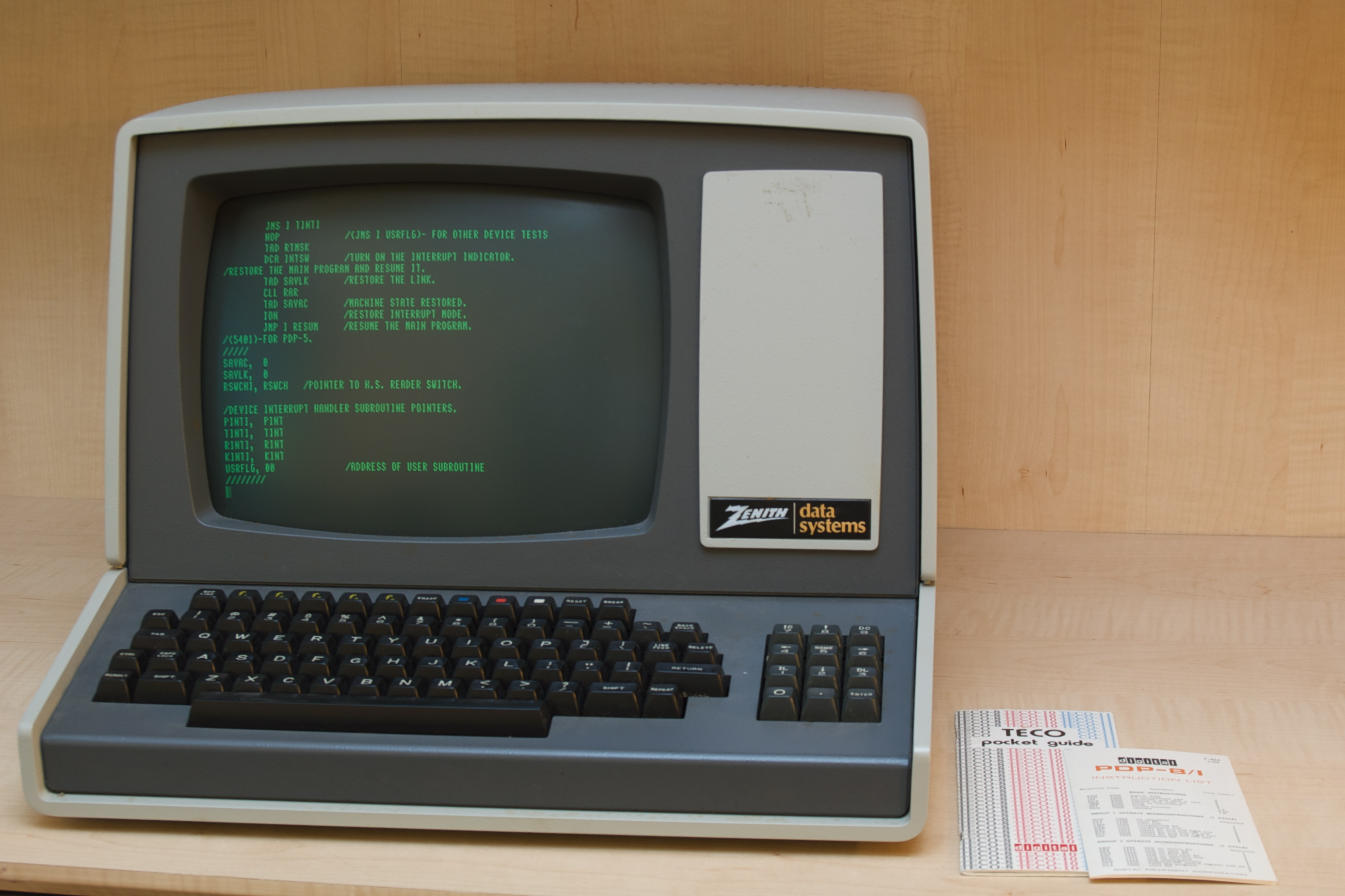 The Zenith Z-19 serial terminal is equivalent to the Heathkit H-19 terminal. This is a dumb terminal. It has no local processing functions. It communicates with a minicomputer or mainframe over an RS-232 serial interface. For remote operation, this was often used with a modem. This is late 1970s, early 1980s technology. The monochrome green screen is standard 24 lines x 80 columns, text only, upper/lower case. Nearby is the TECO editor reference card, and a PDP-8/i reference card. The classic source code on screen is from (no affiliation). This was around $600 new. When I bought this, the serial port didn't work. When I called Zenith, they said I was entitled to on-site support! They sent someone out from the nearest office, about 60 miles away. He found that the baud-rate oscillator was running at the wrong speed. The motherboard was replaced, and it was good to go.